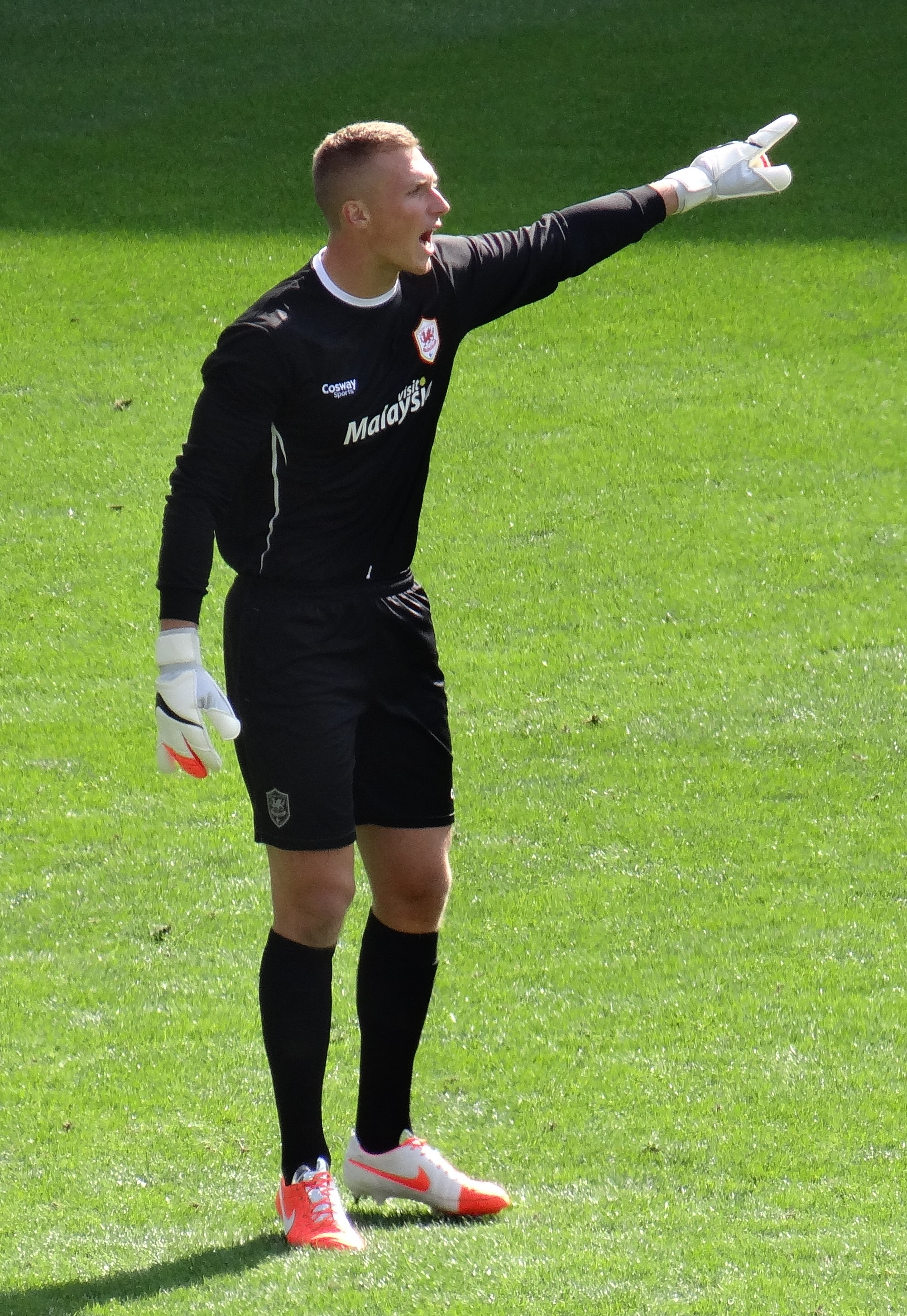 Footballer Simon Moore playing for Cardiff City.